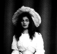 Julie Manet (1878-1966) french painter, daughter of Berthe Morisot